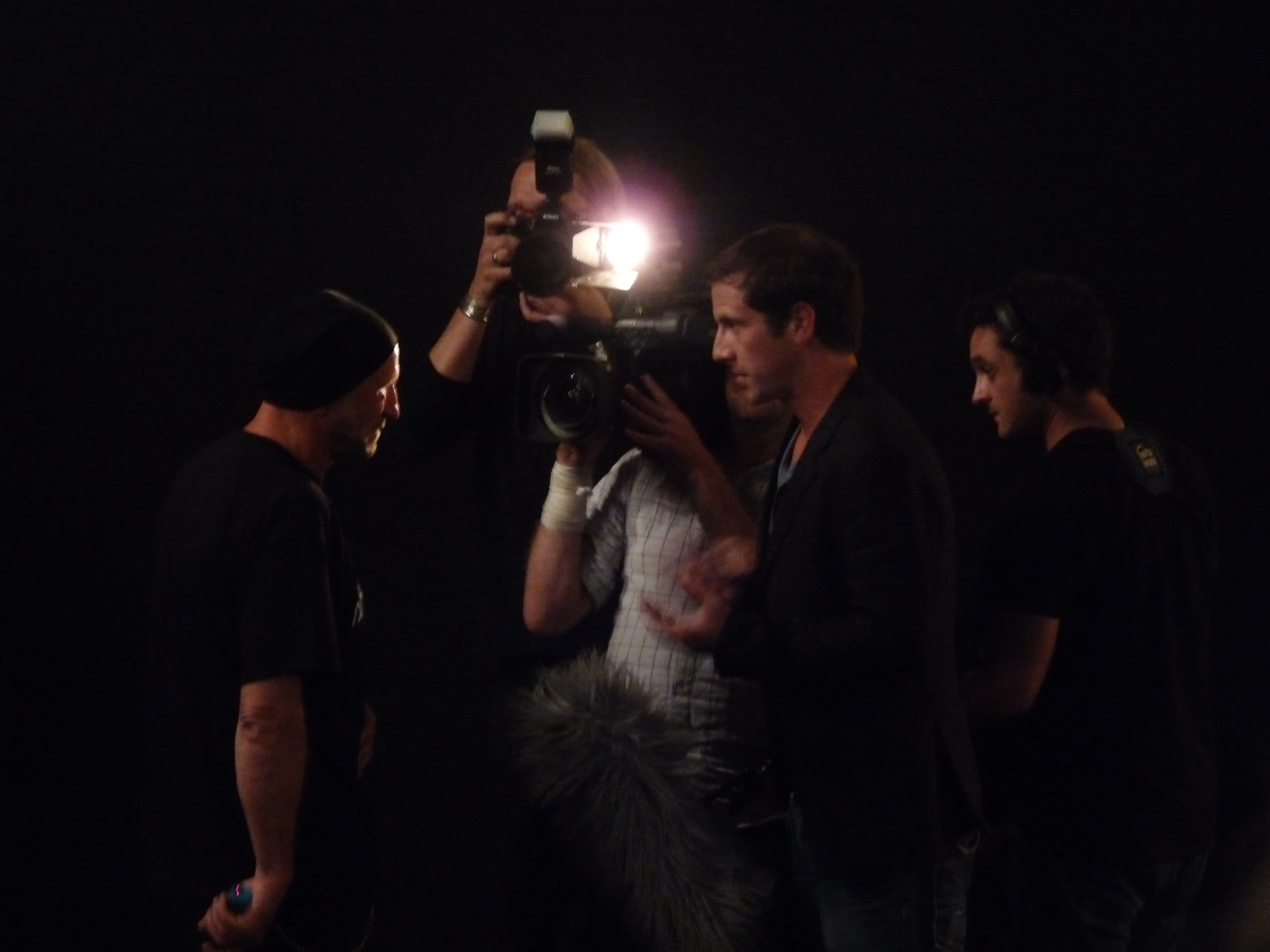 interview with Titus Dittmann at the premiere of the movie Brett vor'm Kopp about himself in Münster, Germany